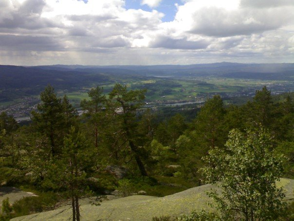 A picture of a place called Krokstadelva and you can see to Konsberg. This is at a top called Solbergvarden.